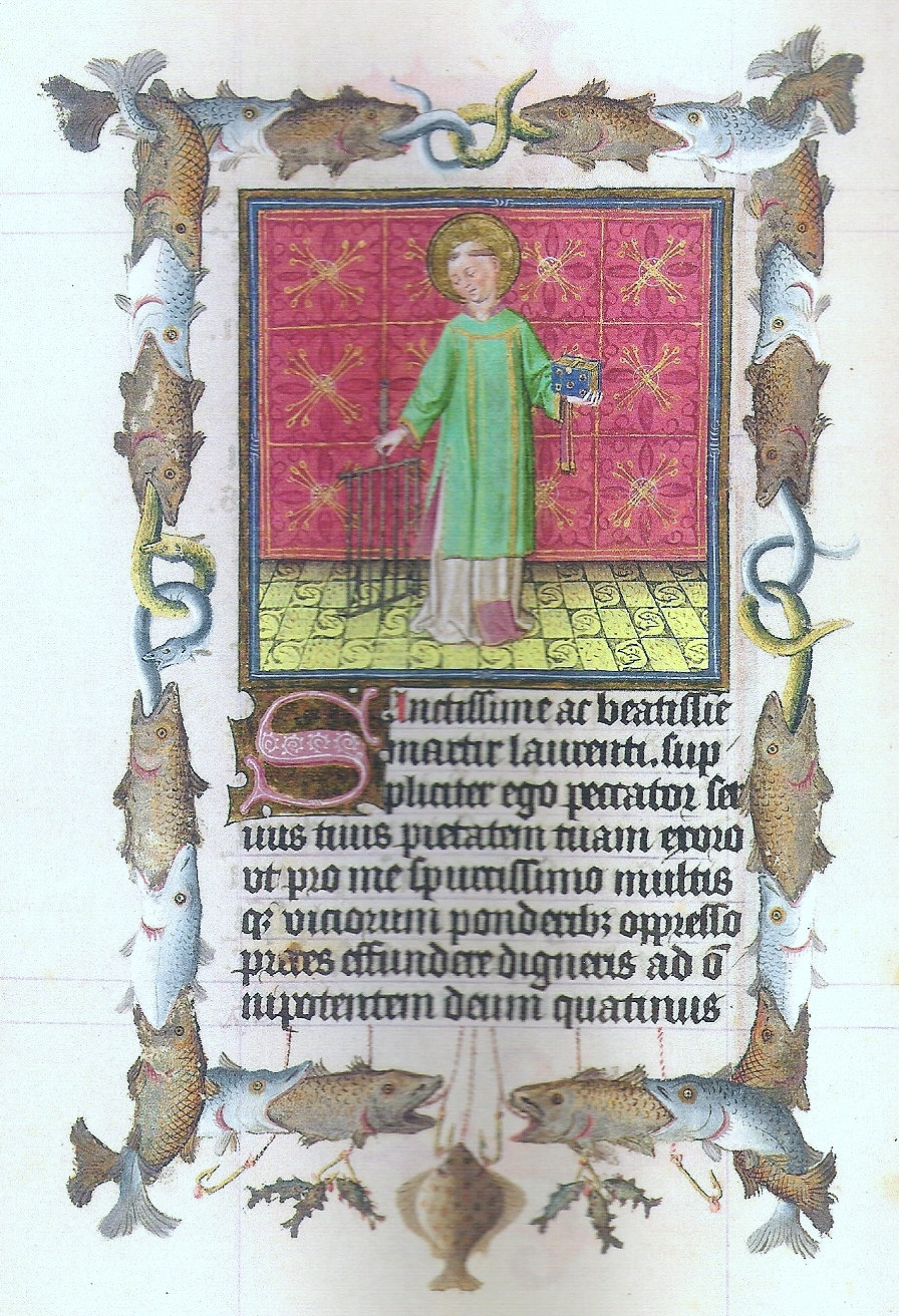 Master of Catharine of Cleves, Laurentius